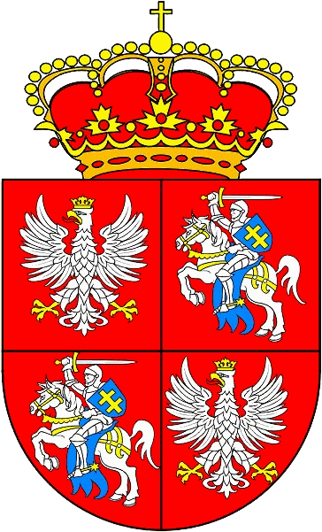 Coat of arms of the Polish-Lithuanian Commonwealth